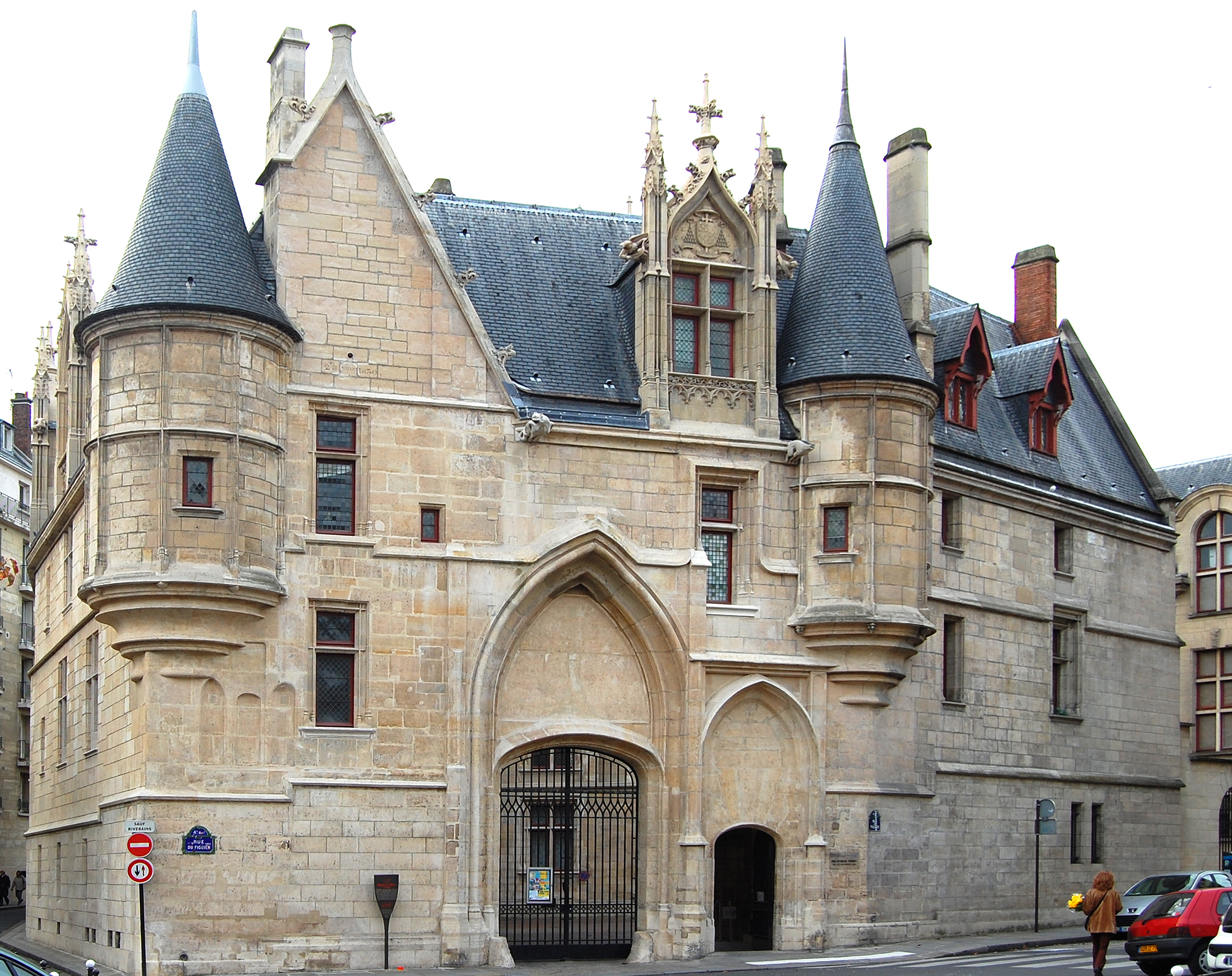 Hotel de Sens, Marais, Paris, France